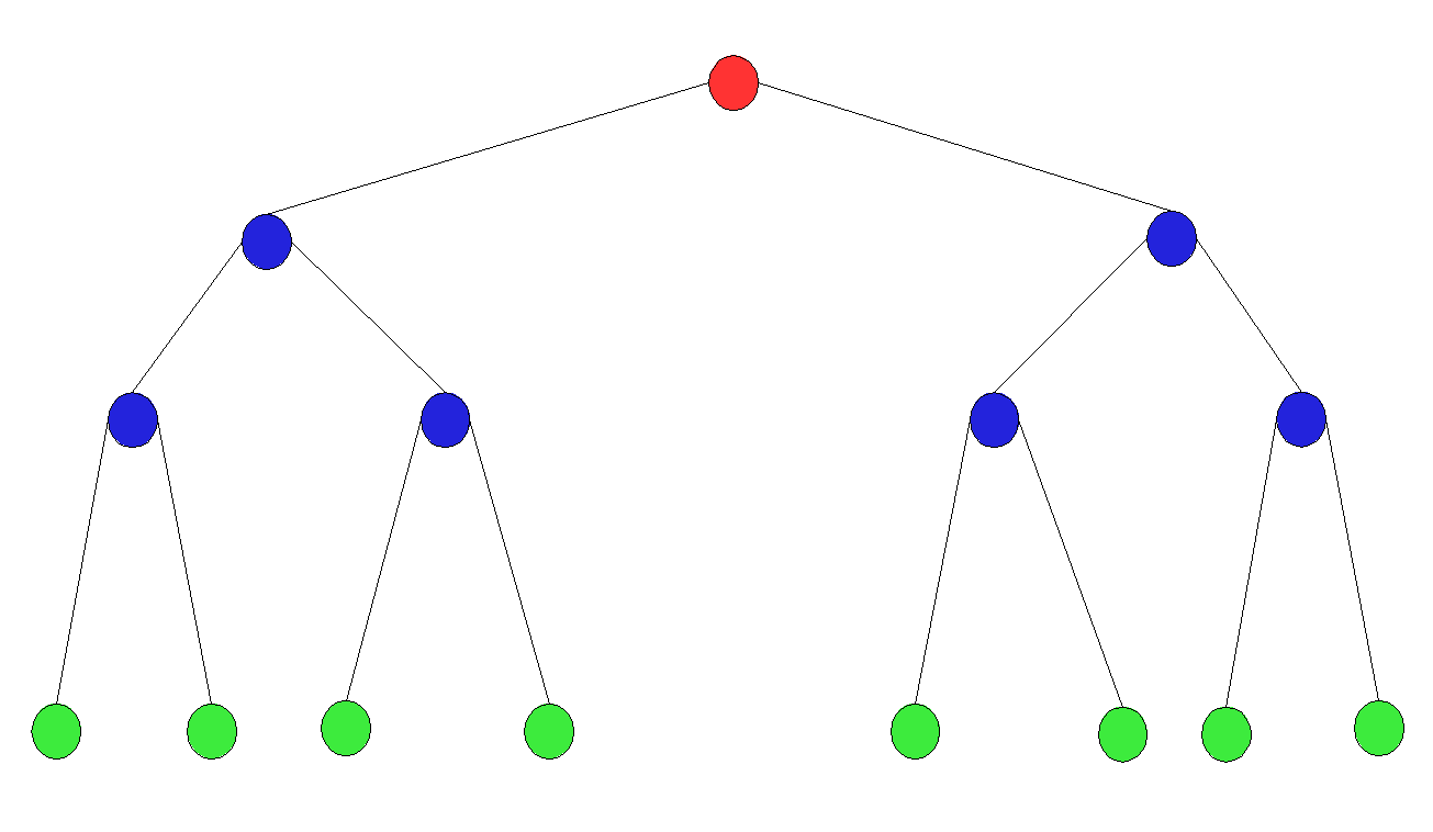 Binary tree with 4 layers.